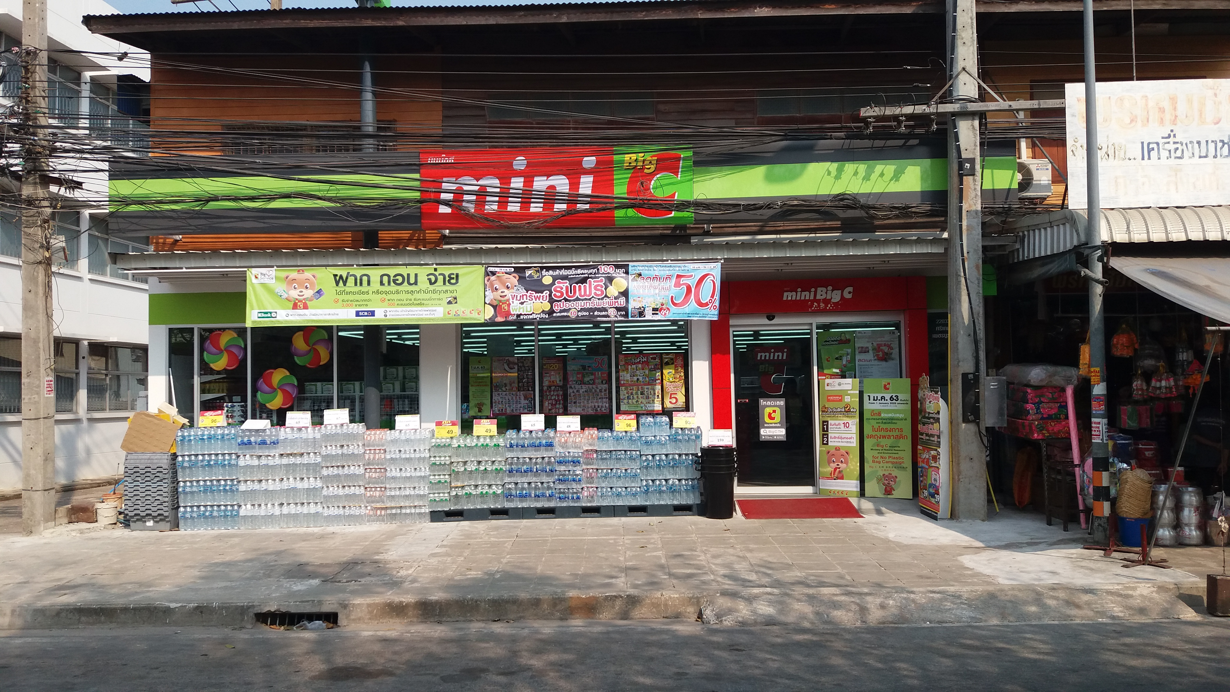 mini Big C. Opened in December 2019 on Route 21, in Ban Klang, Si Thep District, Phetchabun Province, Thailand